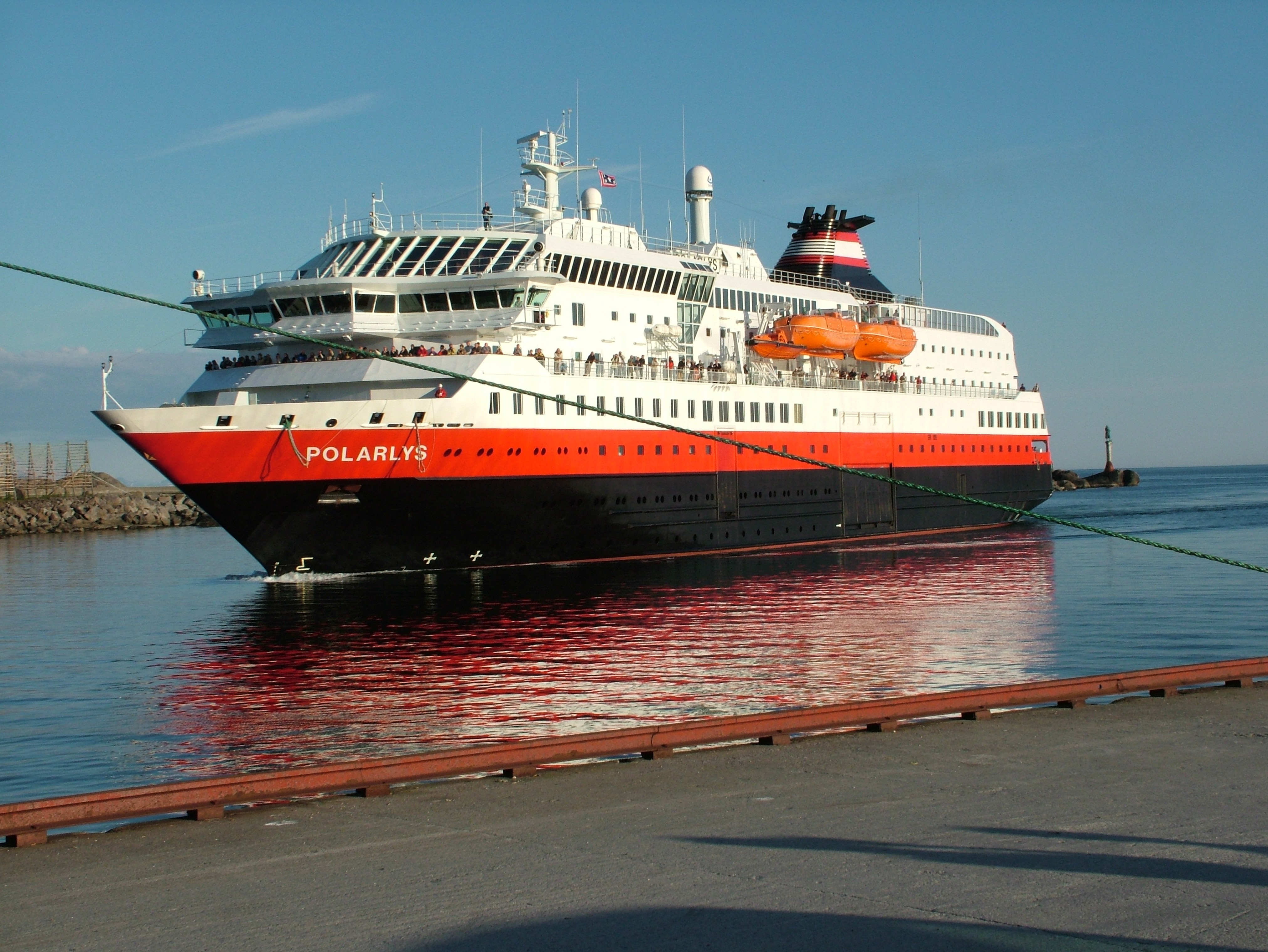 The Hurtigruten ship MS Polarlys in Svolvaer / Lofoten